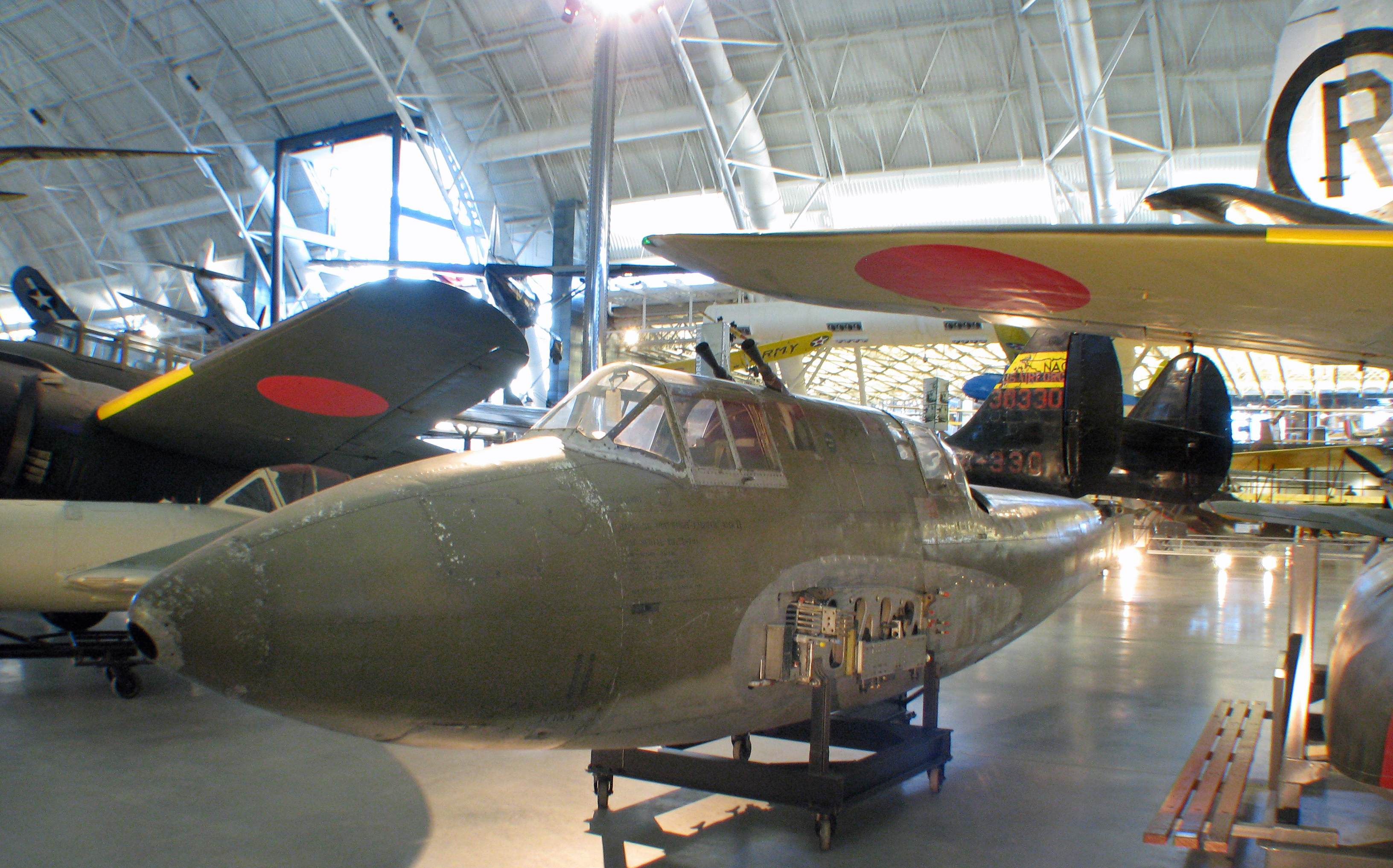 Kawasaki Ki-45 Kai Hei (Mod. C) Type 2 Toryu (Dragon Killer) NICK fuselage with a Schräge Musik fitment, at the Udvar-Hazy Center museum.